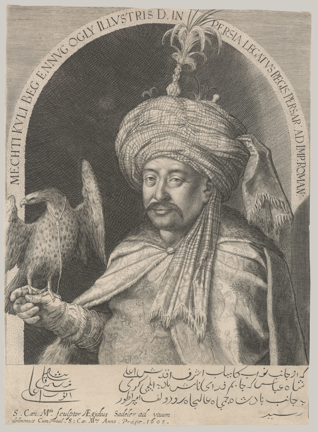 Mechti Kuli Beg, Persian Ambassador to Prague, 1605 Artist: Aegidius Sadeler II (Netherlandish, Antwerp 1568–1629 Prague) Date: 1605 Medium: Engraving Dimensions: Sheet: 10 1/8 x 7 7/16 in. (25.7 x 18.9 cm) Classification: Prints Credit Line: The Elisha Whittelsey Collection, The Elisha Whittelsey Fund, 1949